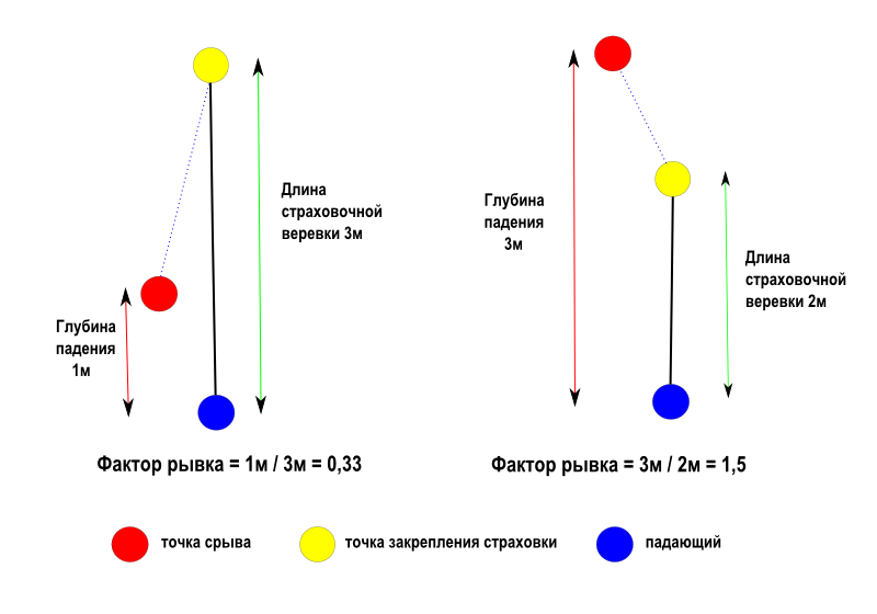 fall factor